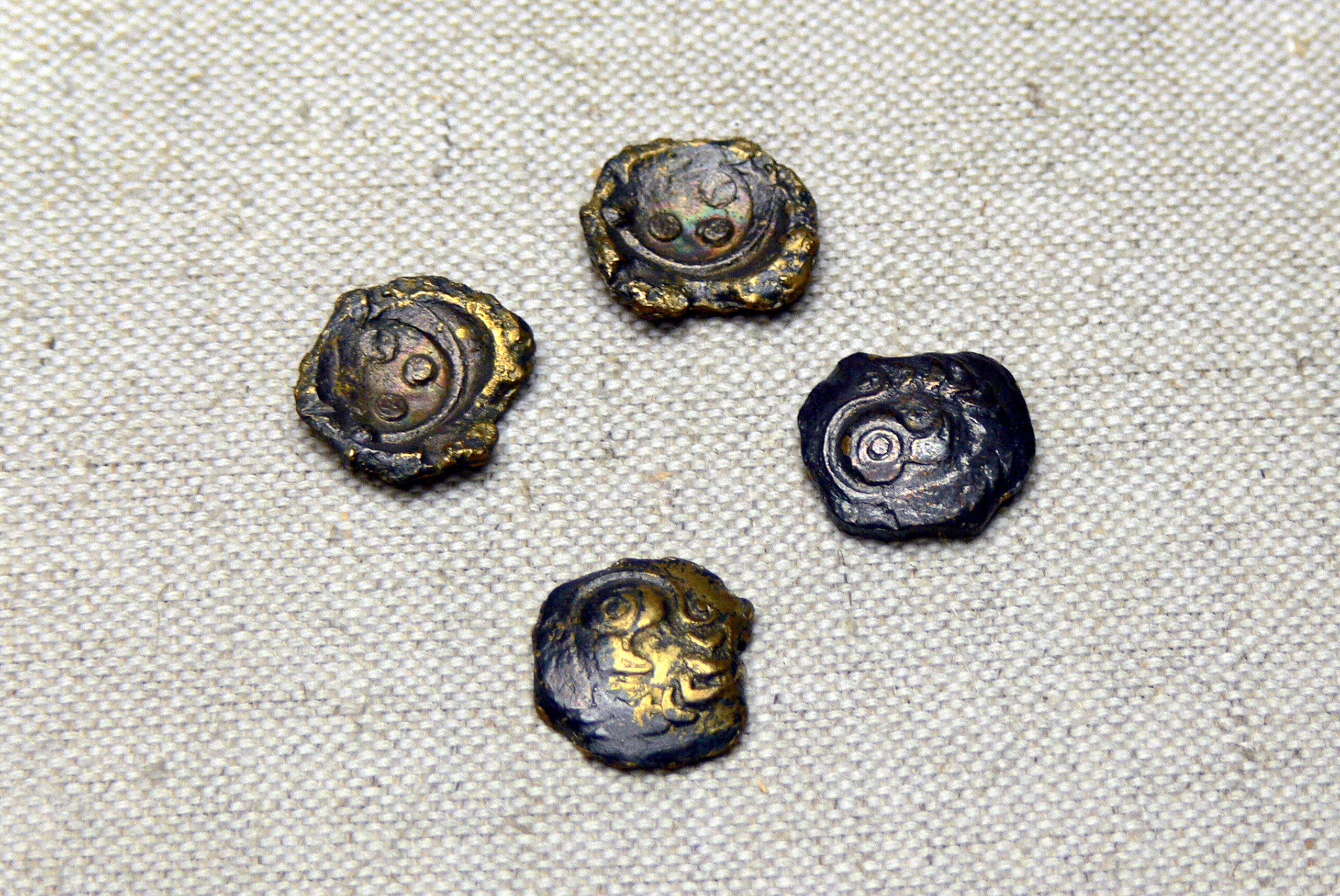 Roman museum Kastell Boiotro ( Passau ). Celtic golden coins from Passau.